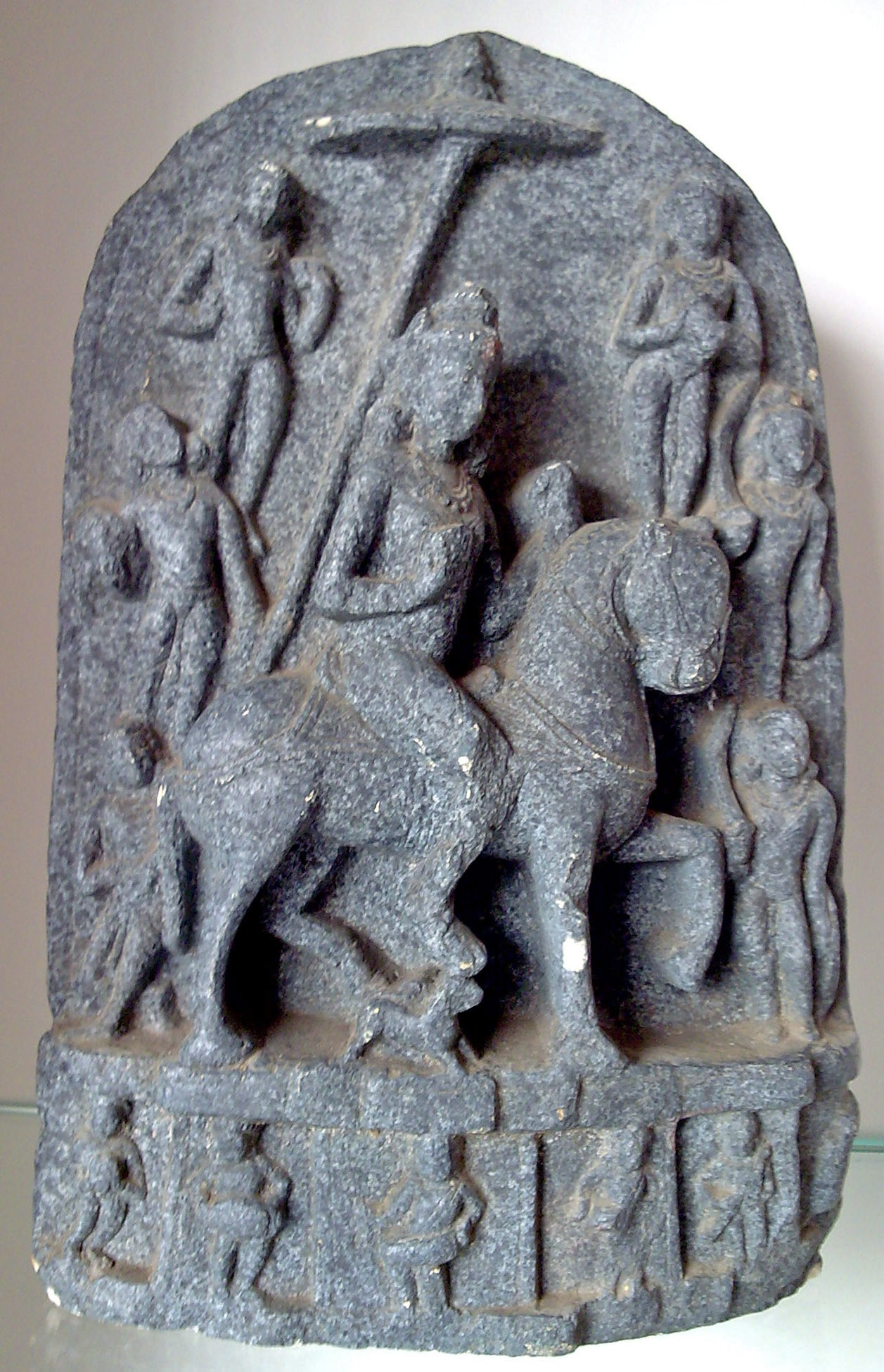 photo of plaster of paris replica of Revanta statue, C. 11th century, Benegal made by Indian Museum, Kolkata